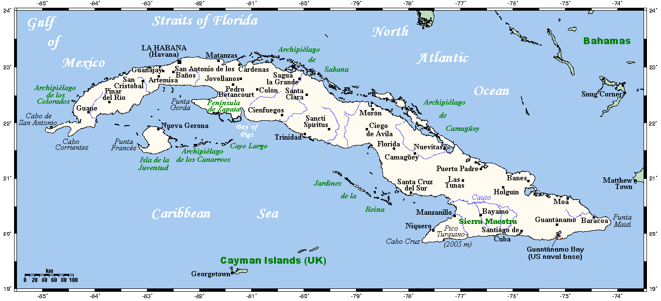 A map showing Cuba's cities and main towns